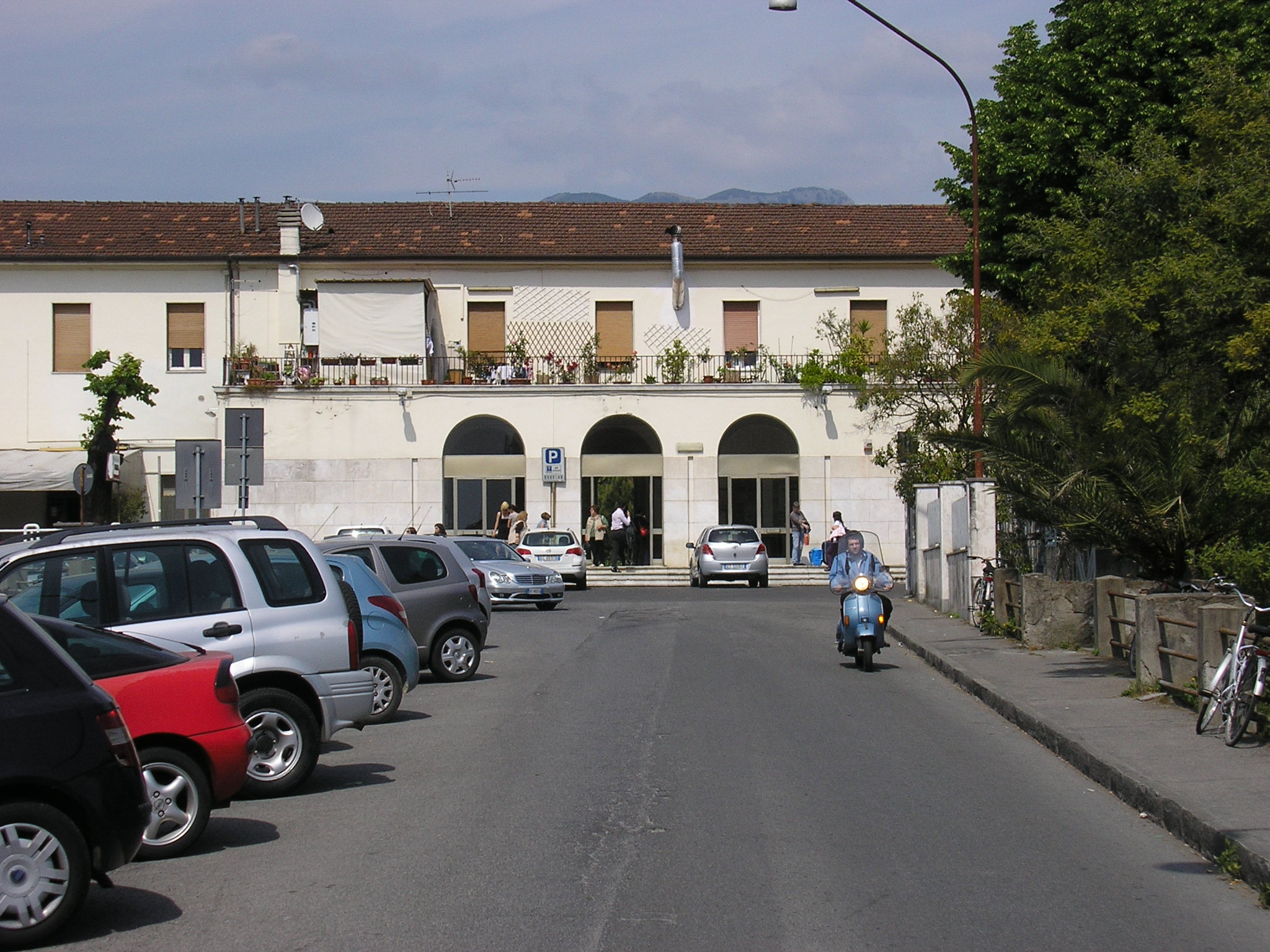 Train station at Avenza, near Carrara